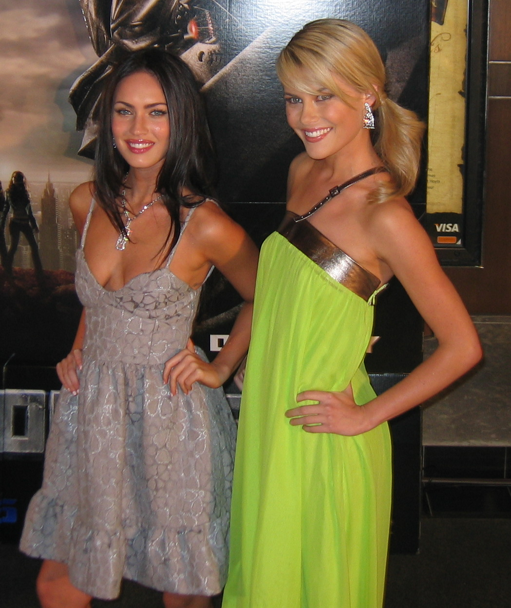 A picture of Megan Fox and Rachael Taylor at the premiere of Transformers in Sydney, Australia